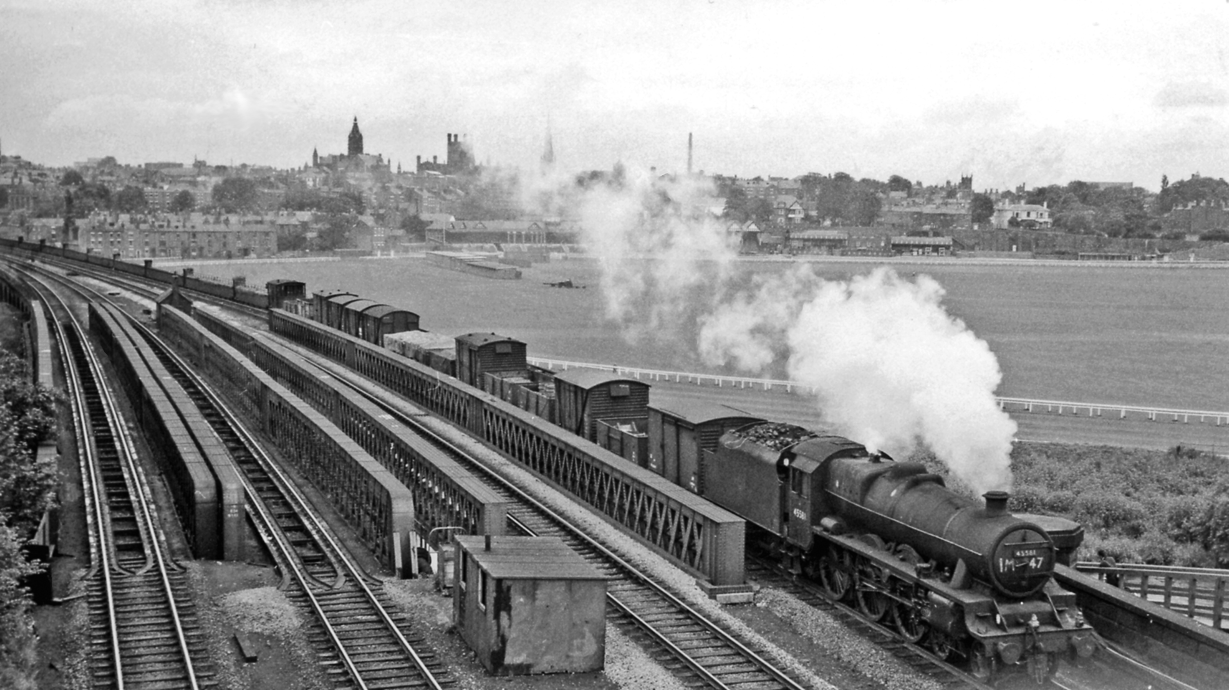 Westbound freight crossing the Dee Viaduct by Chester Racecourse. View NE, towards the City and Cathedral, the railway curving round from the left beyond to Chester General and Birkenhead, Manchester, Crewe etc.: ex-LNW Chester - Holyhead main line, shared here with the ex-GW main line from Shrewsbury. The Class E freight is headed by Stanier 'Jubilee' 6P 4-6-0 No. 45581 'Bihar and Orissa' (built 9/34, withdrawn 8/66).